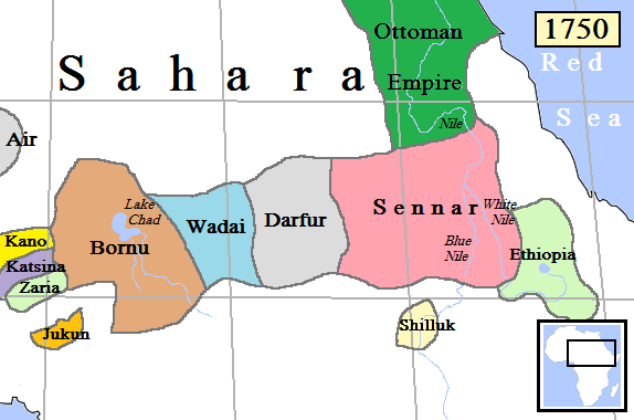 Map of Central-East Africa in AD 1750. (Partially based on Atlas of World History (2007) - Early modern Africa, map.)